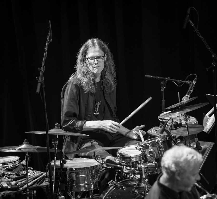 Kenneth Ekornes with James Morrisson and Brazz Brothers at Chat Noir. The concert was part of Oslo Jazzfestival and took place on 19. August 2017 in Oslo. Lineup: James Morrisson (trumpet), Helge Førde (trombone), Jan Magne Førde (trumpet), Runar Tafjord (horn), Stein Erik Tafjord (tuba), Kenneth Ekornes (drums) and Kåre Nymark jr (trumpet).